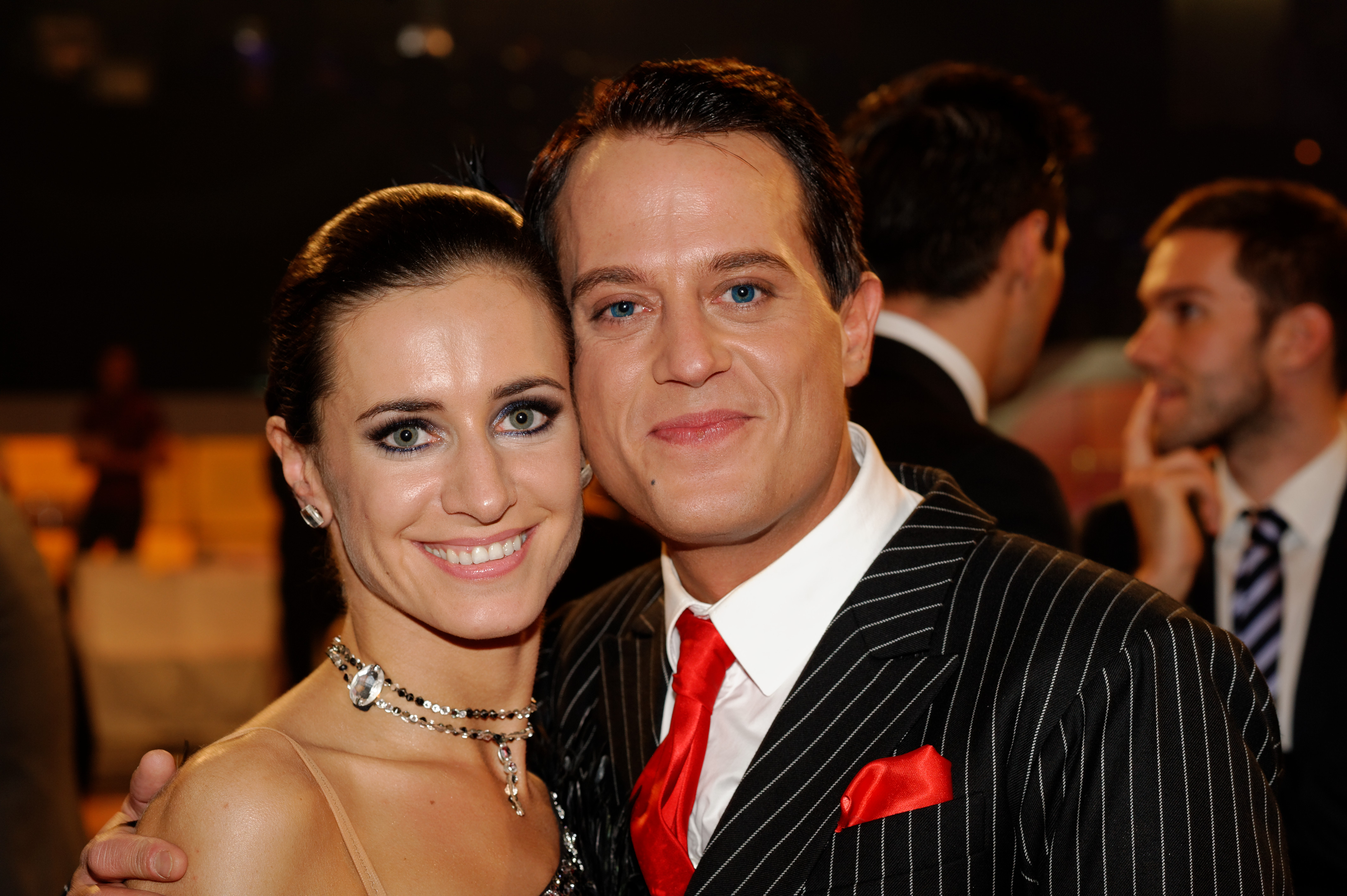 "Dancing Stars" am 5. April 2013 The making of this work was supported by Wikimedia Austria. For other files made with the support of Wikimedia Austria, please see the category Supported by Wikimedia Österreich. Lenka Pohoralek und Gregor Glanz